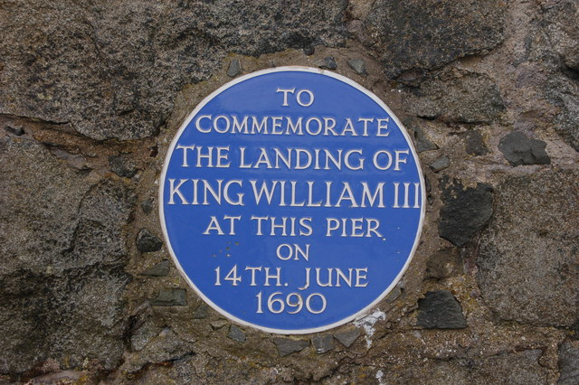 Plaque at Carrickfergus harbour. This plaque at Carrickfergus harbour marks the landing of King William III there in 1690.